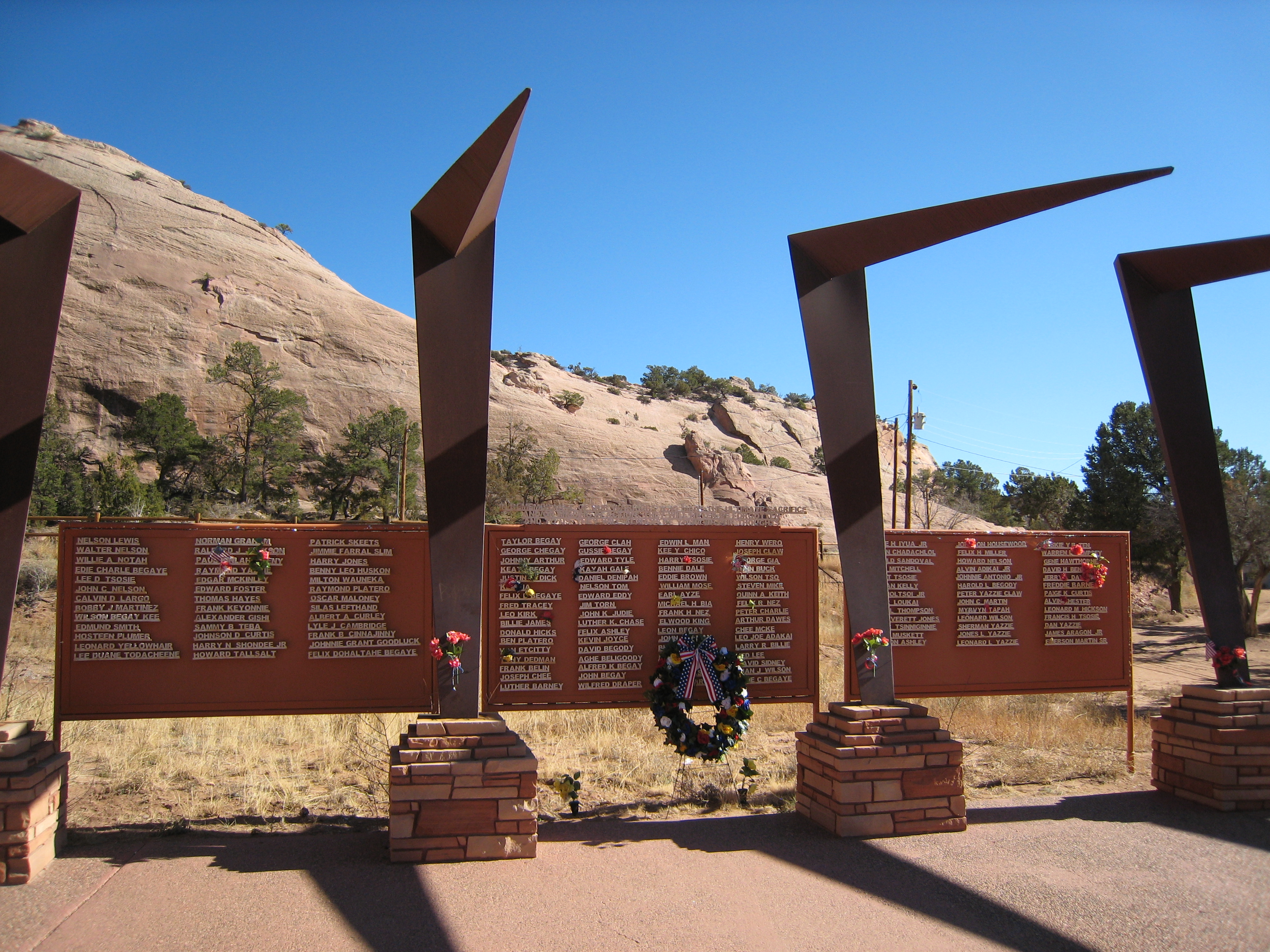 Picture of the Navajo Nation World War II Memorial, listing names of those who died serving in the United States Armed Forces during WW2. The memorial is in Window Rock, Arizona, near the Window Rock.